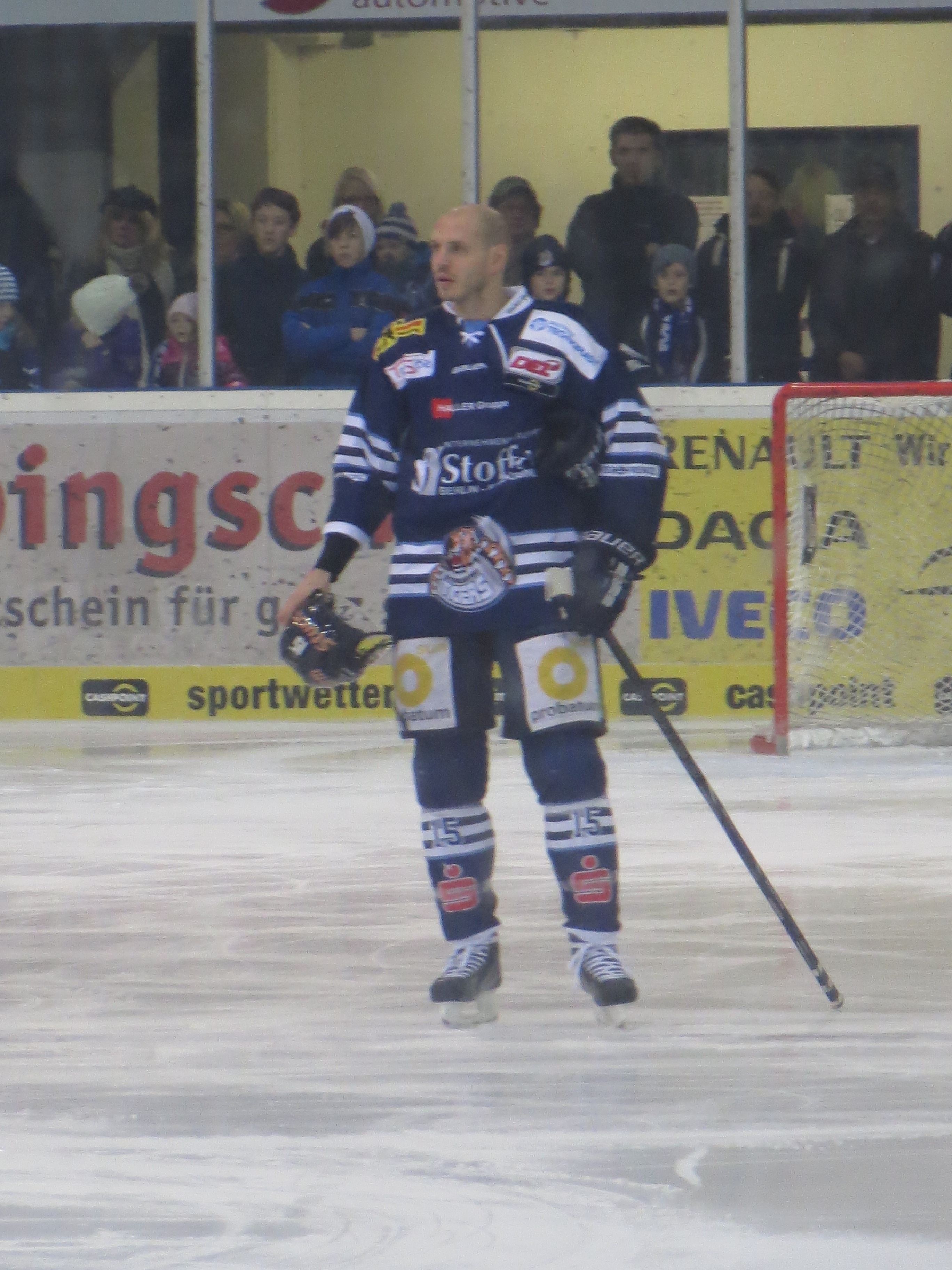 Beech before the game Straubing Tigers against Thomas Sabo Ice Tigers 12/26/2013